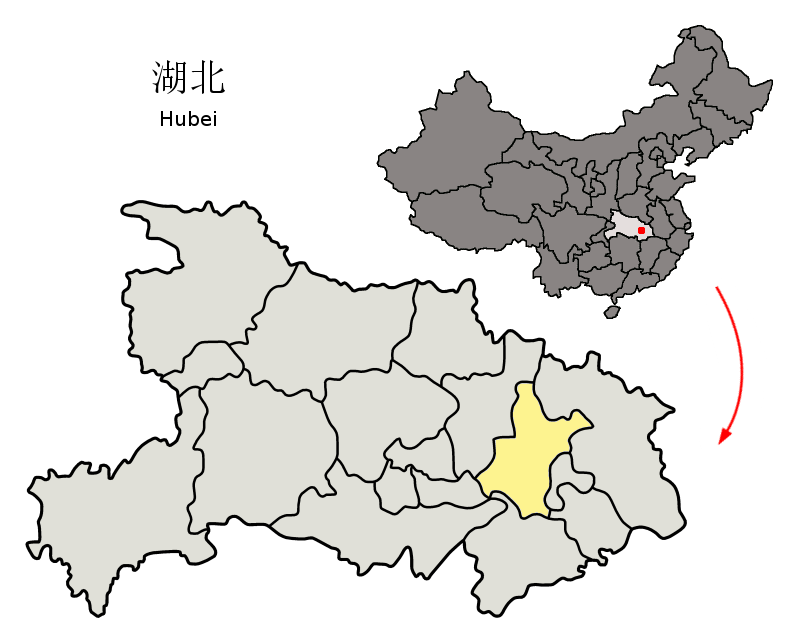 Location of Wuhan Prefecture (yellow) within Hubei Province of China Map drawn in december 2007 using various sources, mainly : Hubei Province administrative regions GIS data: 1:1M, County level, 1990 Hubei Counties map from